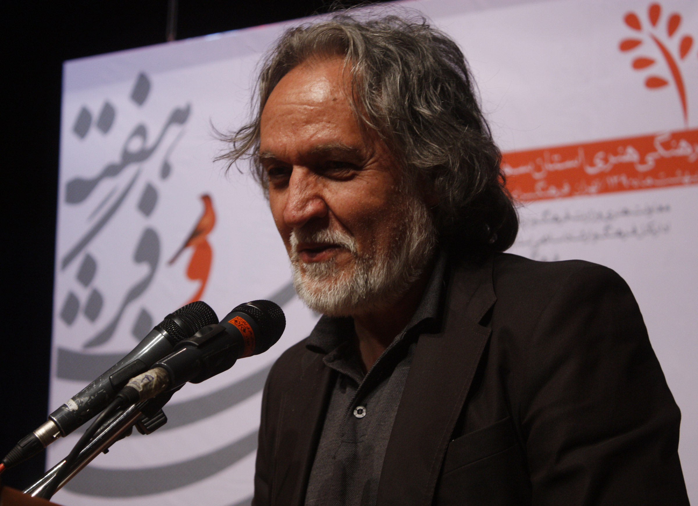 Majid Derakhshani, Iranian musician